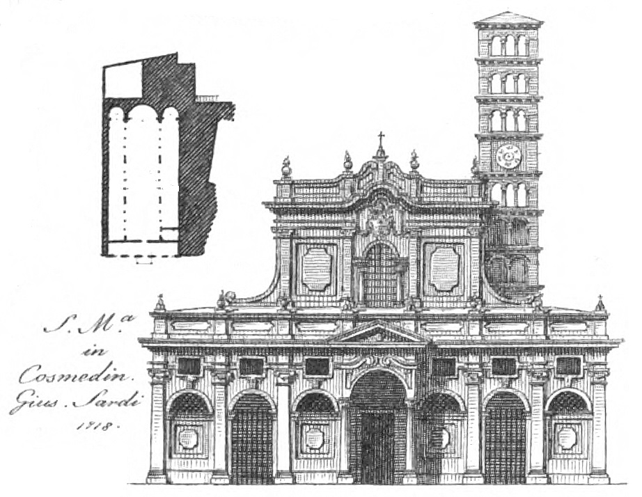 1718 Façade of S. Maria in Cosmedin, ground plan